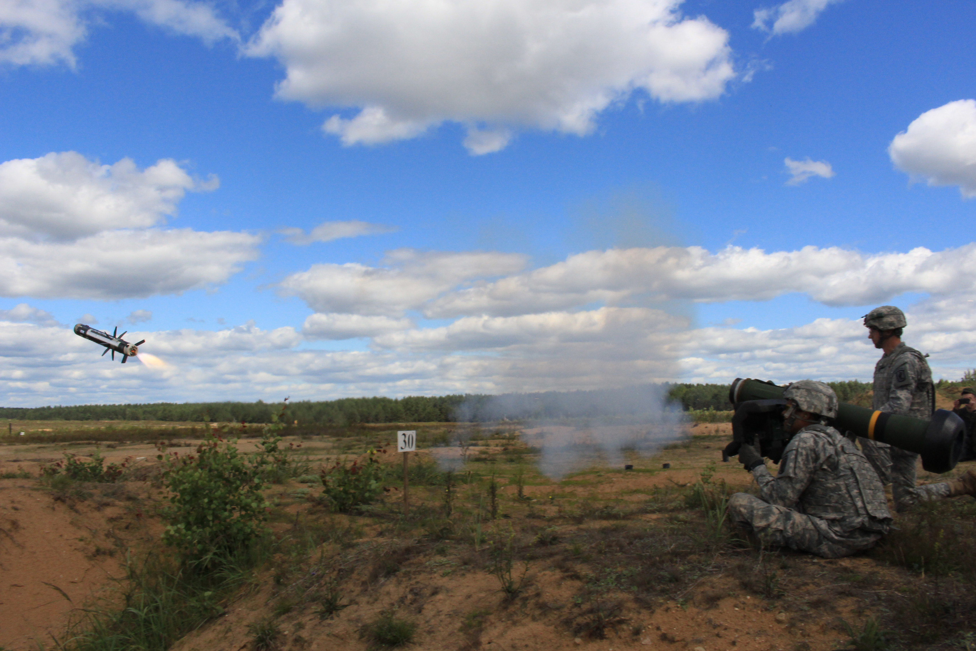 Paratroopers with 173rd Airborne Brigade fire Javelins and mortars with Lithuanian forces